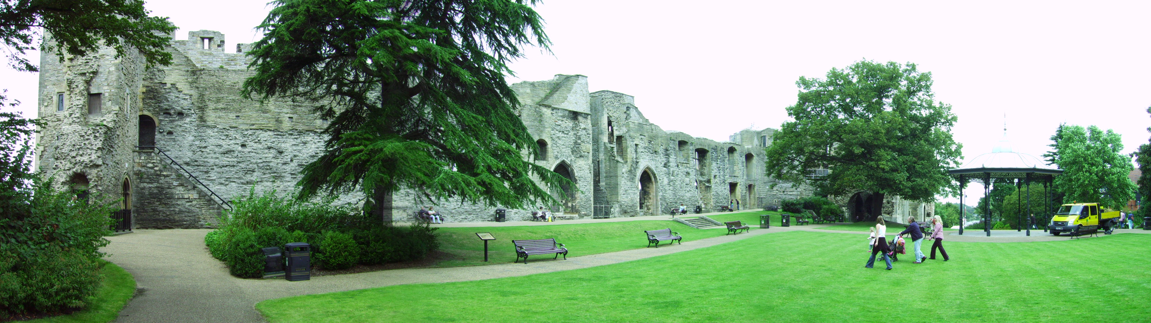 Newark Castle, panorama inside the walls.